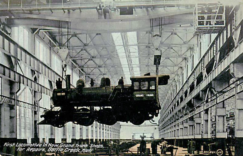 Postcard photo of the first locomotive in the new Grand Trunk Western Railroad shop in Battle Creek, Michigan.